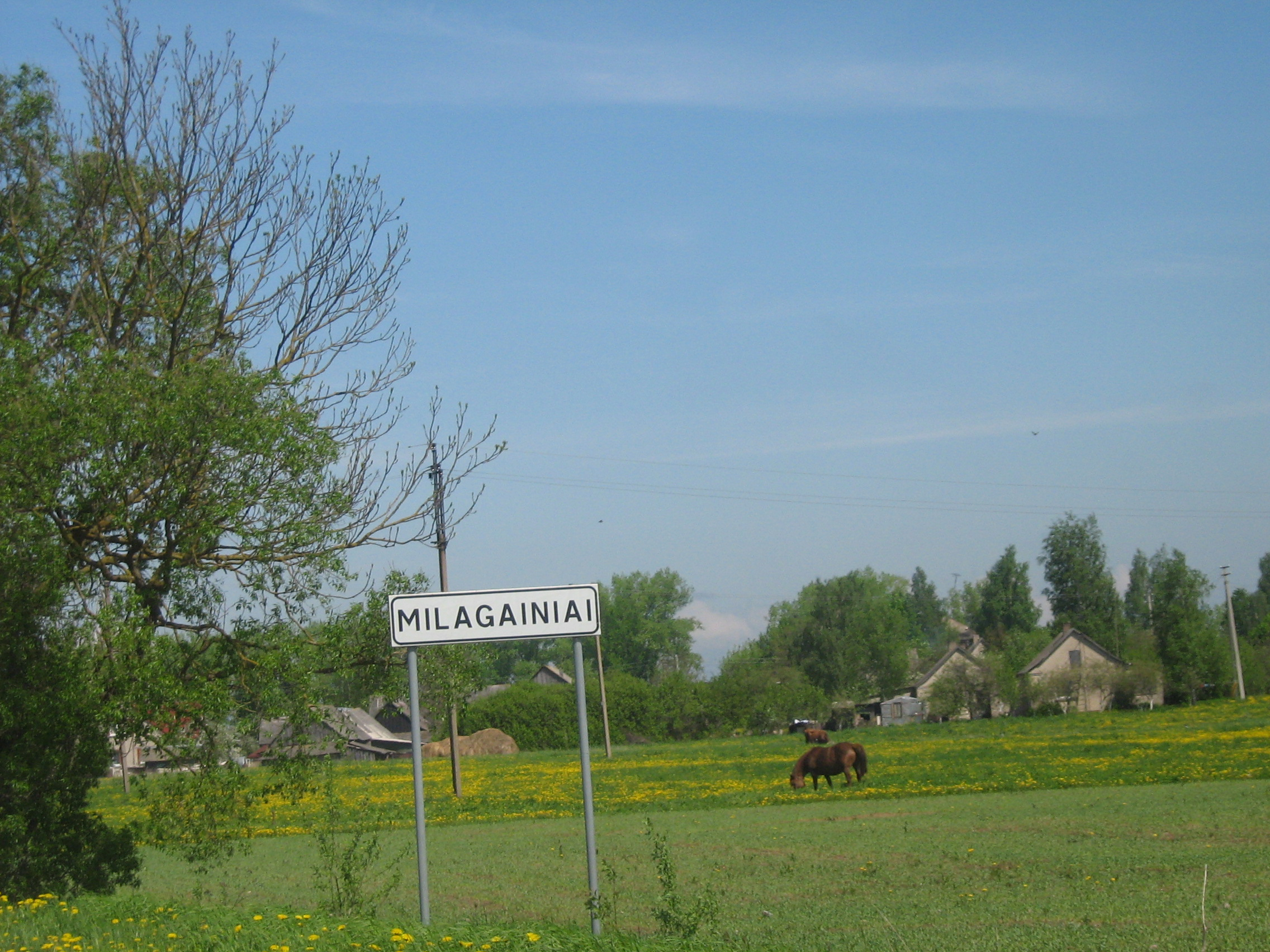 Milagainiai